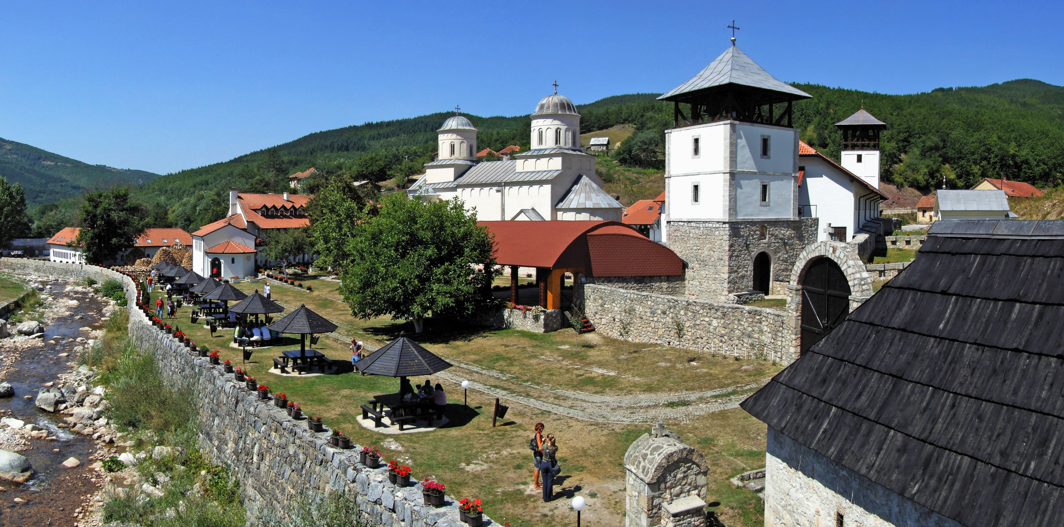 Mileševa Monastery, Serbia